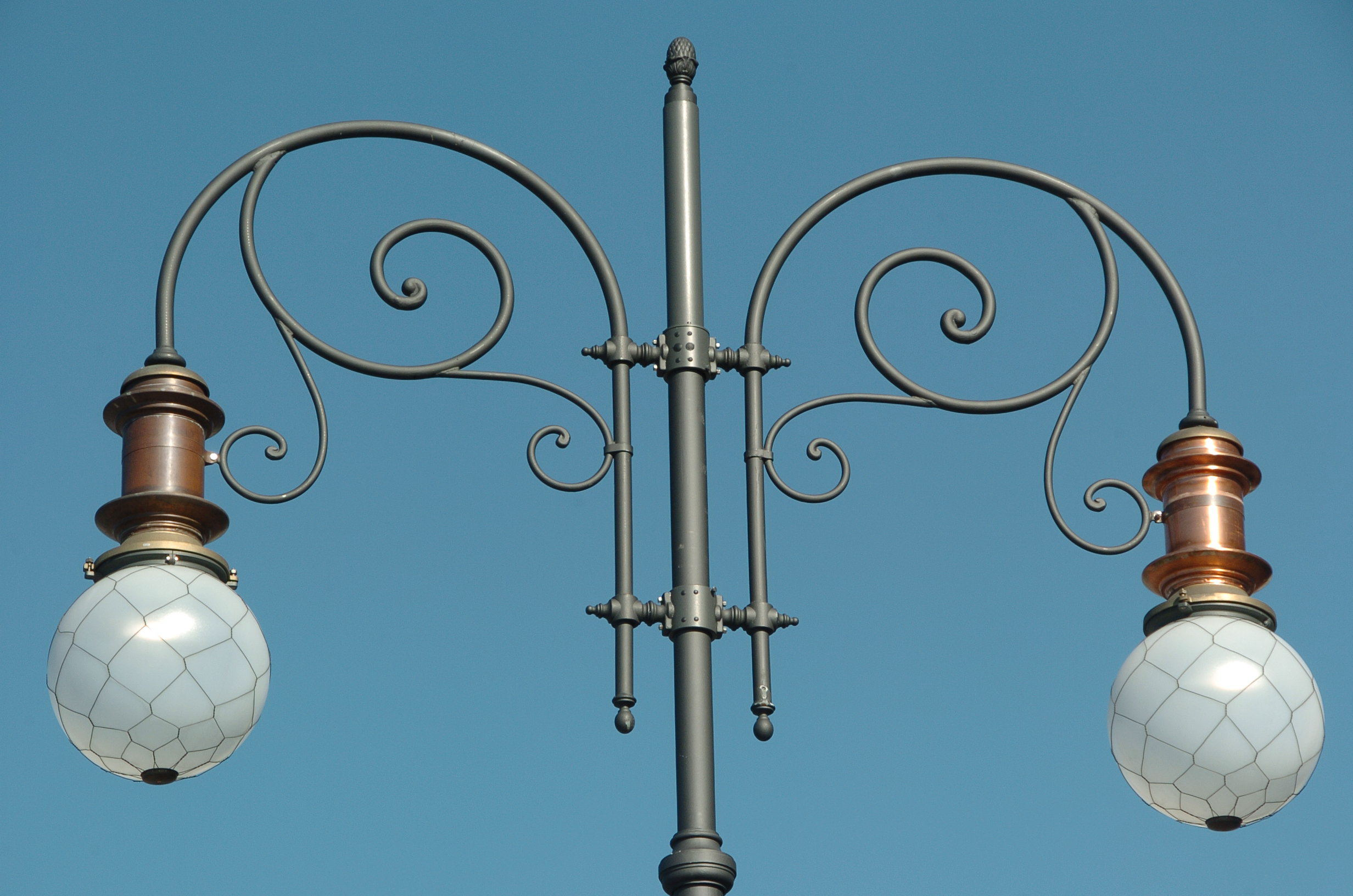 Street light in Trieste, Italy